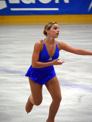 Megan Oster during her short program at the 2006 Junior Grand Prix event in The Hague, Netherlands